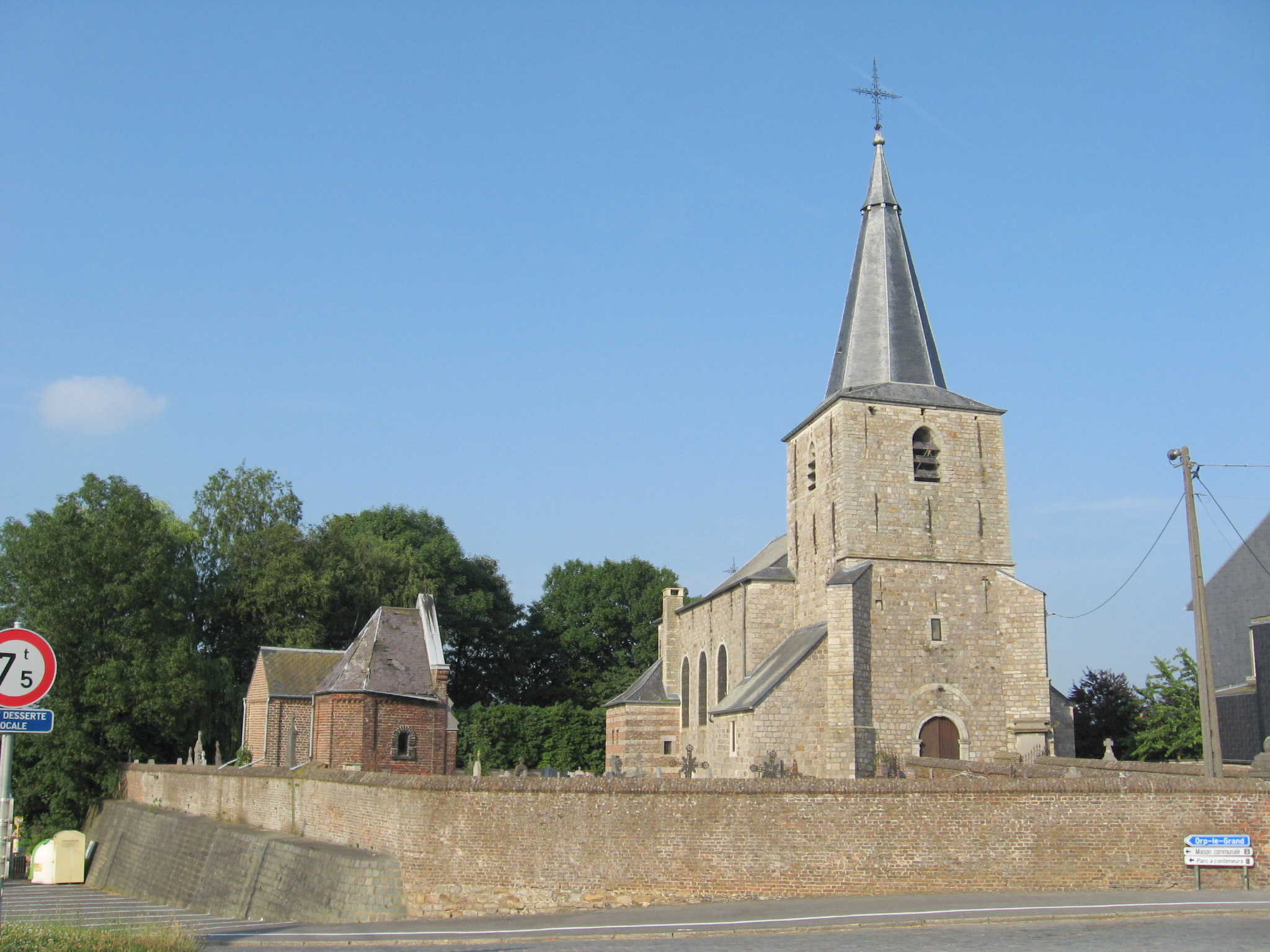 Church of Saint Peter in Jandrain, Jandrain-Jandrenouille, Orp-Jauche, Walloon Brabant, Belgium